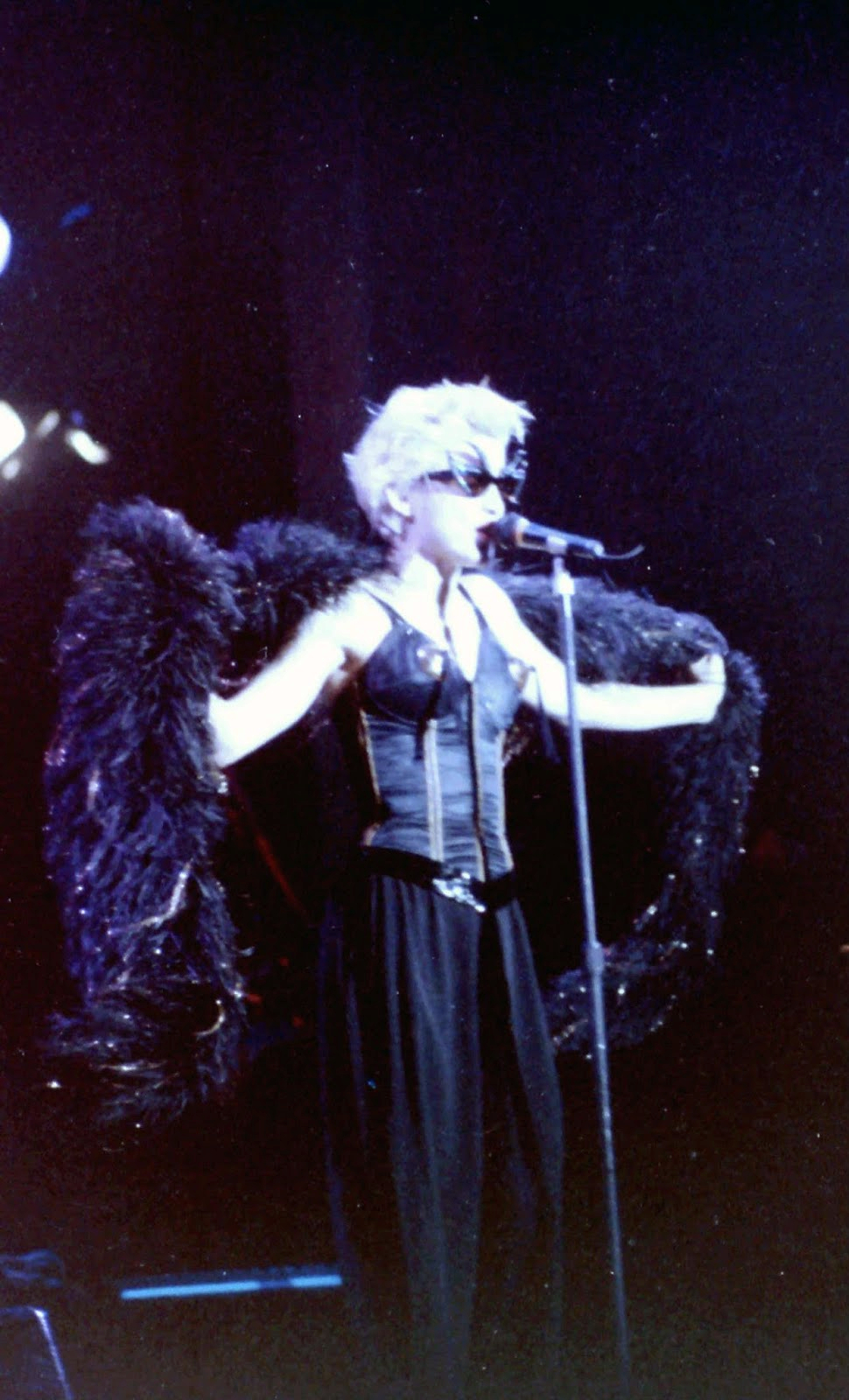 Wembley Stadium Londen Engeland juli '87